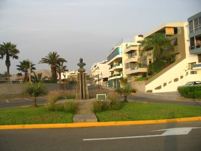 Street in Santa María del Mar (Lima, Peru) Taken by Tuomas Carrasco on March 7th 2005